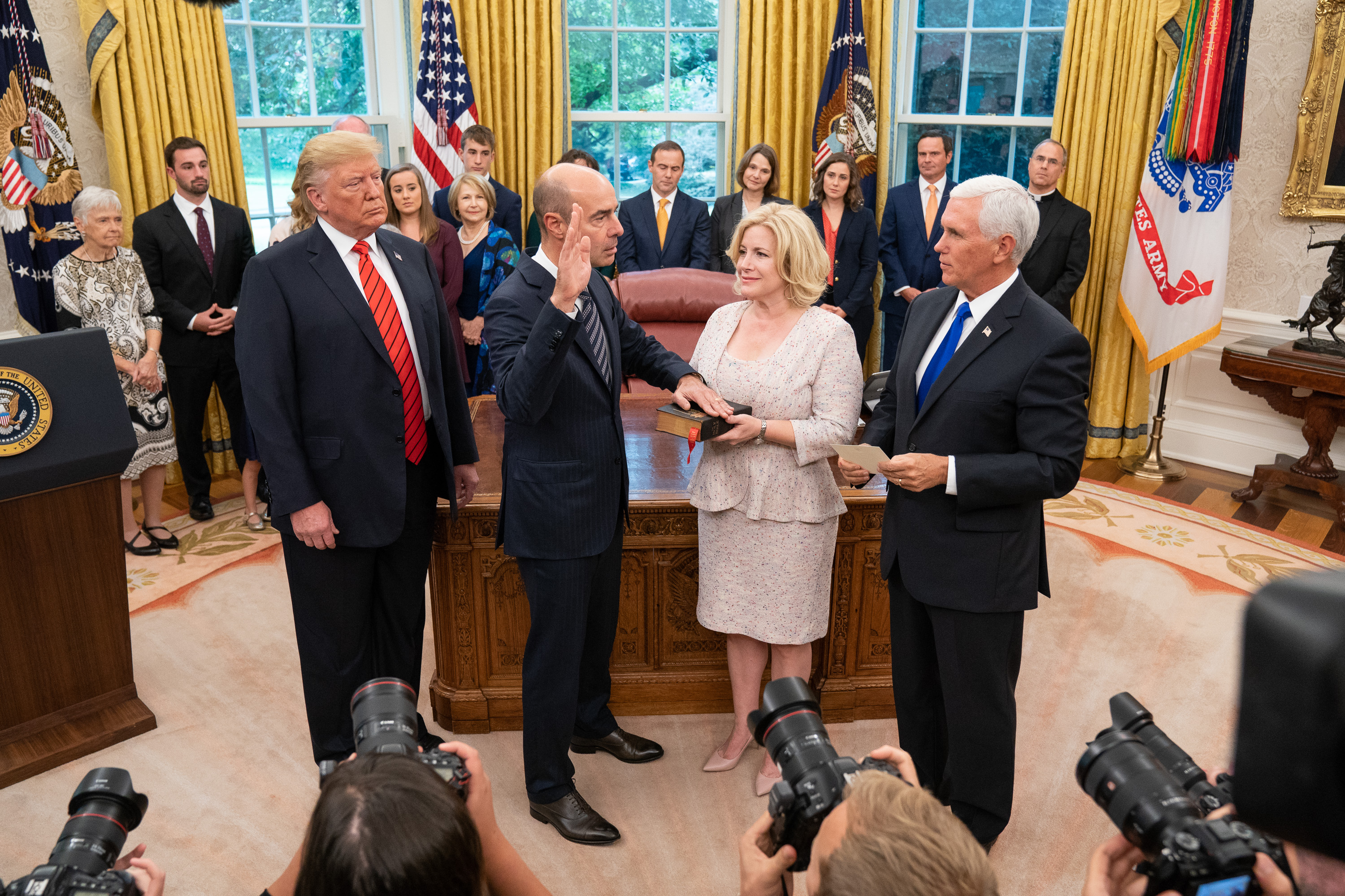 President Donald J. Trump participates in the ceremonial swearing in of Labor Secretary Eugene Scalia in the Oval Office, Monday, September 30, 2019. (Official White House Photo by Shealah Craighead)